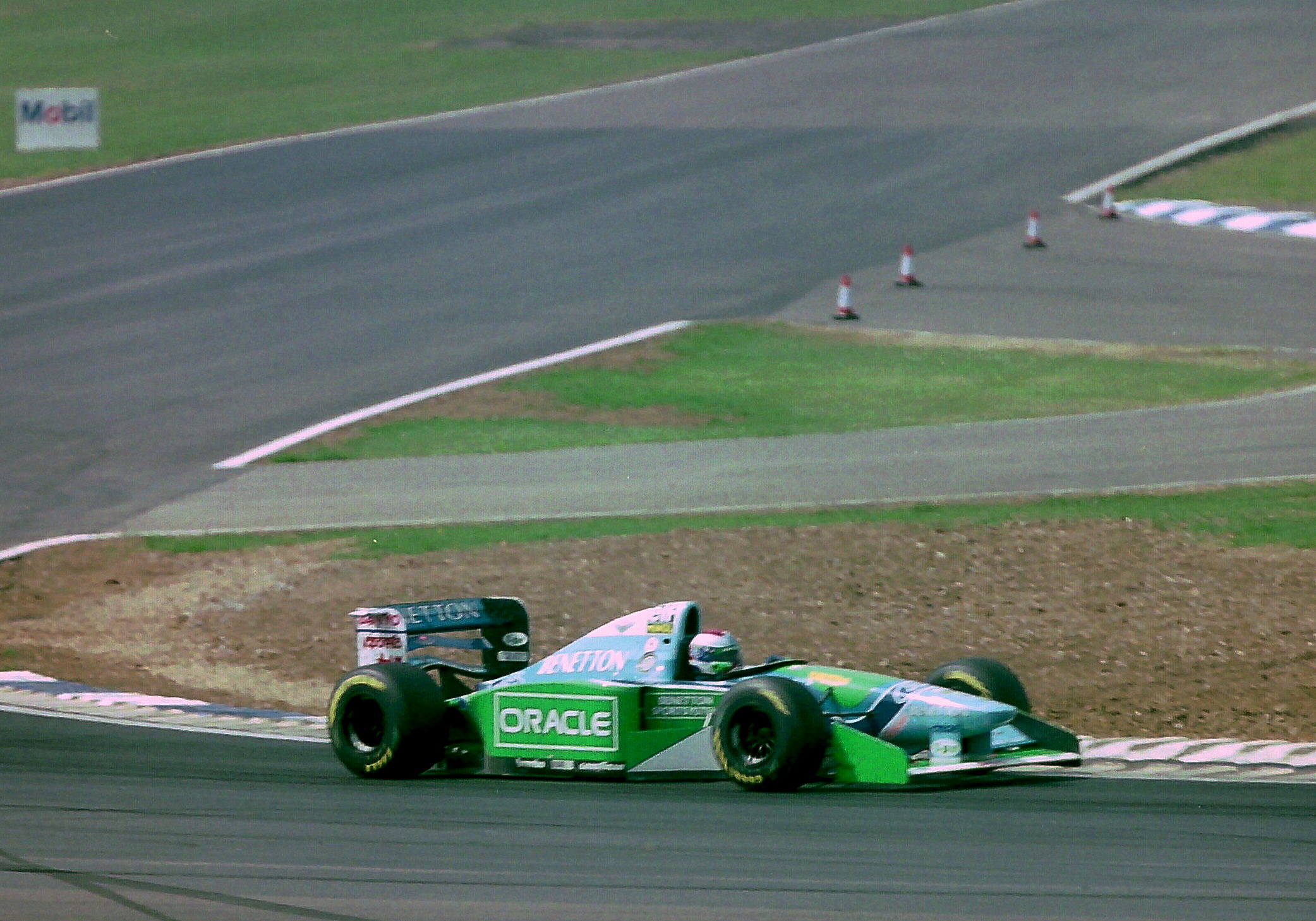 Jos Verstappen - Benetton 194 at the 1994 British Grand Prix